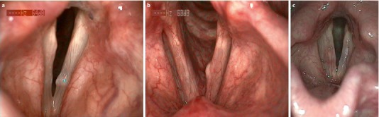 Vocal fold cyst, vocal fold cyst scarring, and epidermoid cyst